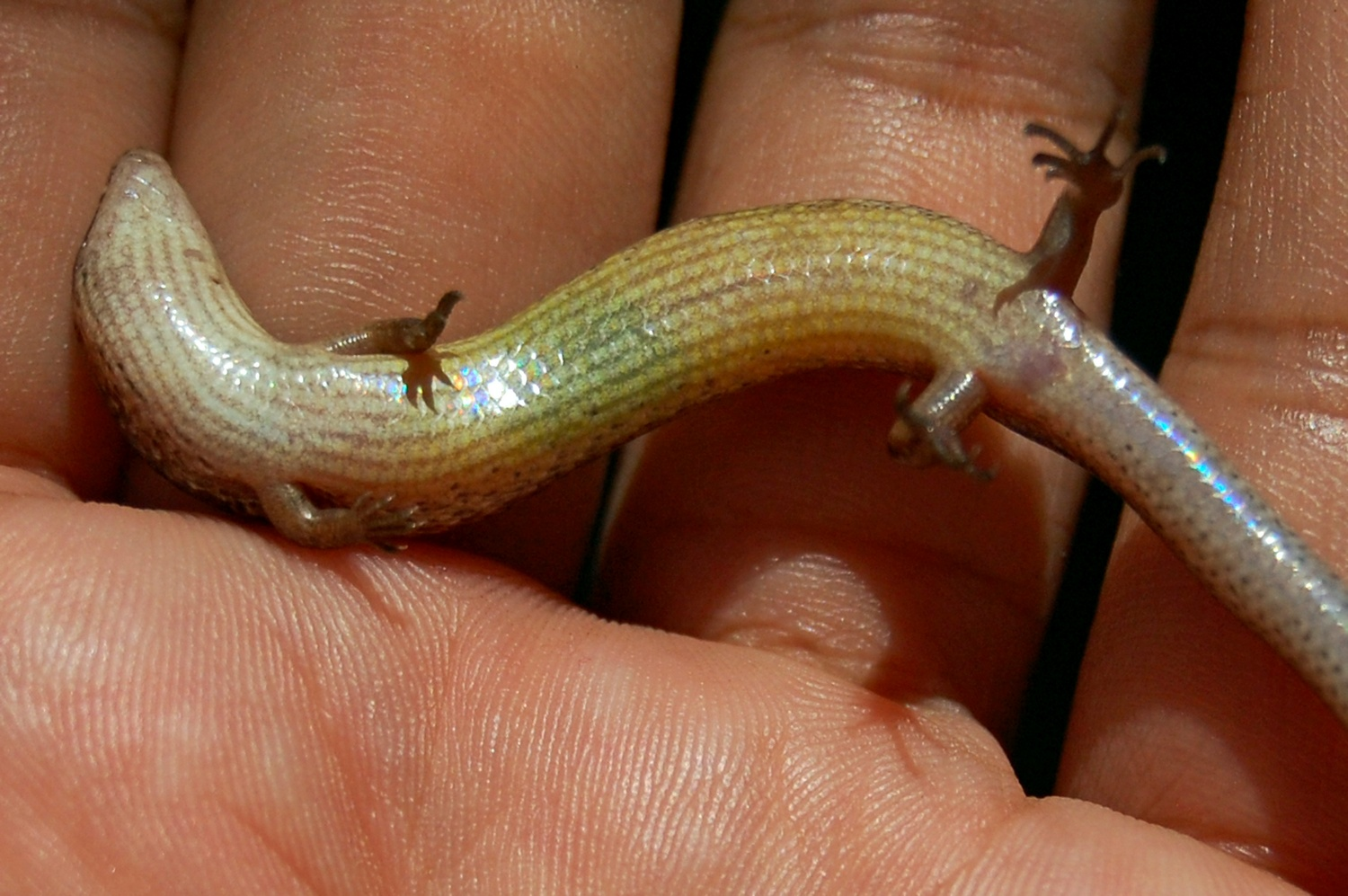 Bowring's Supple Skink Lygosoma bowringii; ventral view. From Bogor, West Java, Indonesia